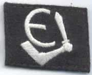 Symbol of the en:20th Waffen Grenadier Division of the SS (1st Estonian) and Estonian Legion